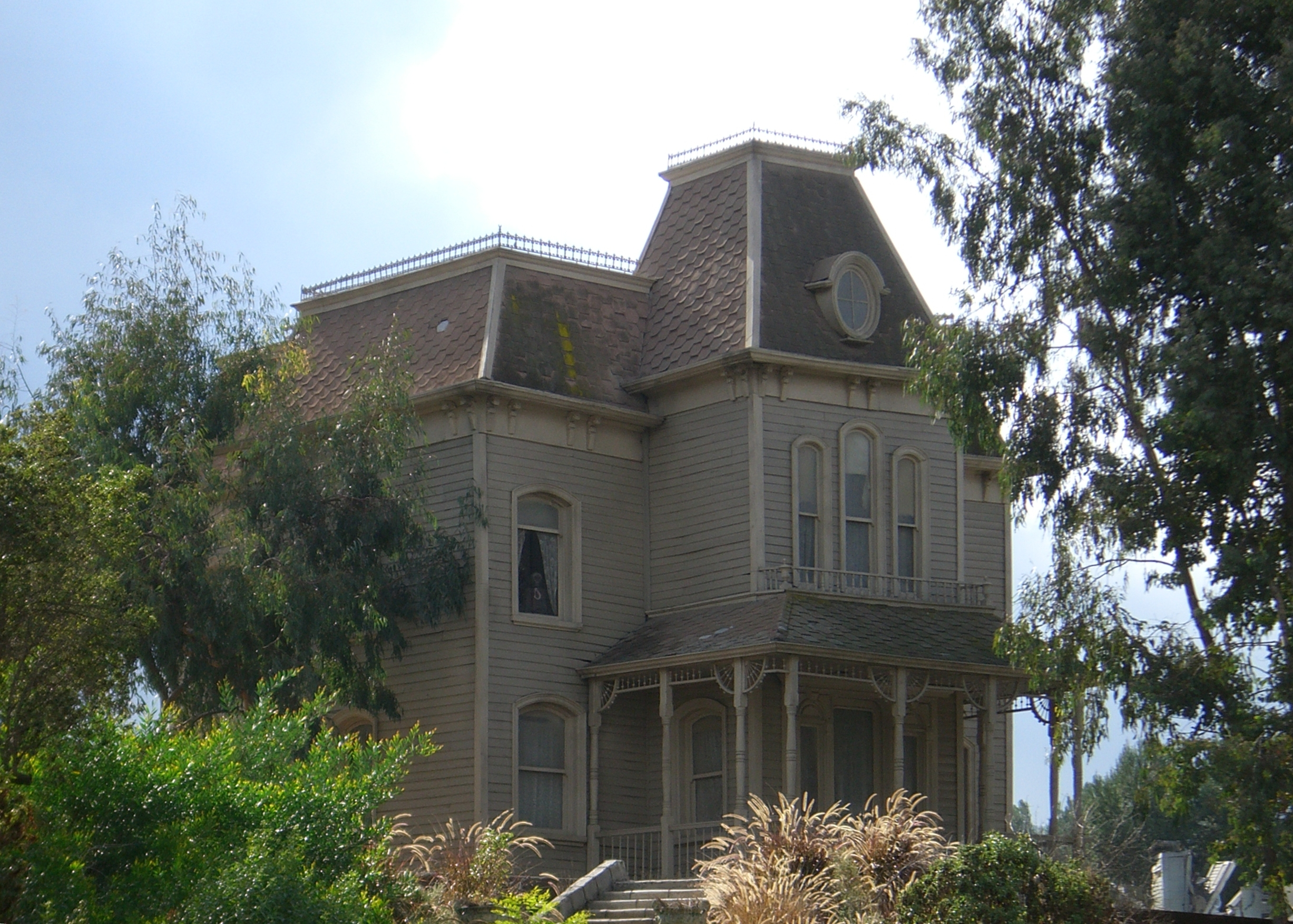 The set of the 1960 Hitchcock's movie Psycho at the Universal Studios Hollywood, California, USA